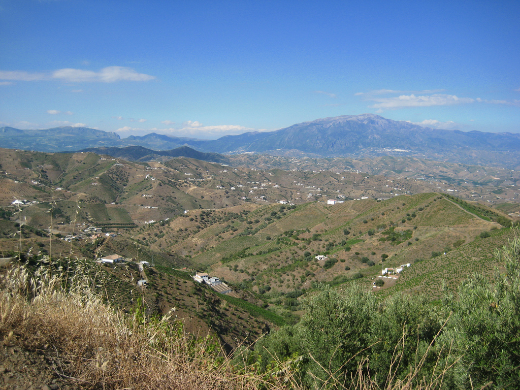 La Maroma peak in the Axarquía region, Ctra. Almáchar-Moclinejo, Málaga, Spain